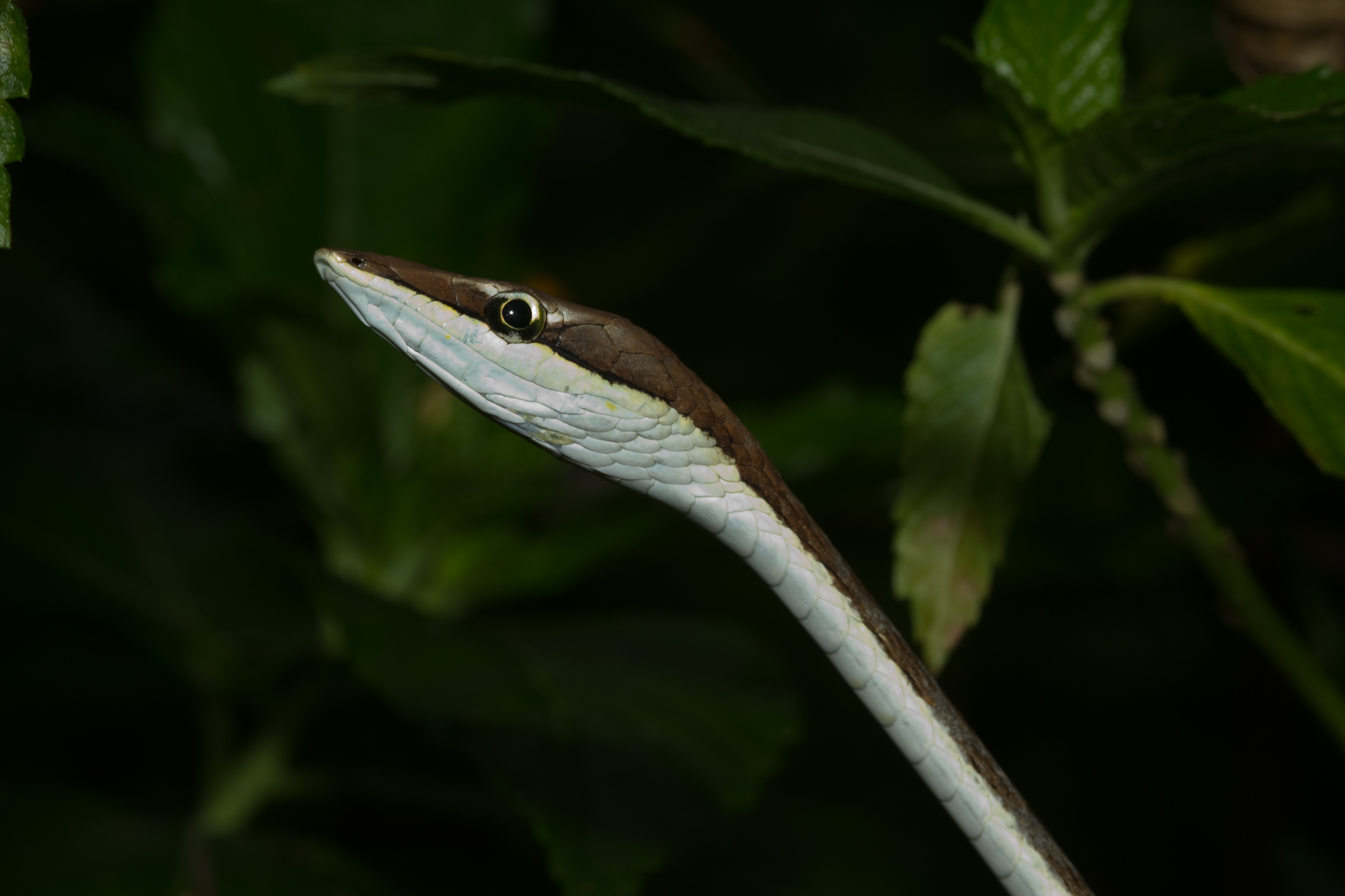 Brown Vine Snake (Oxybelis aeneus), Panama.